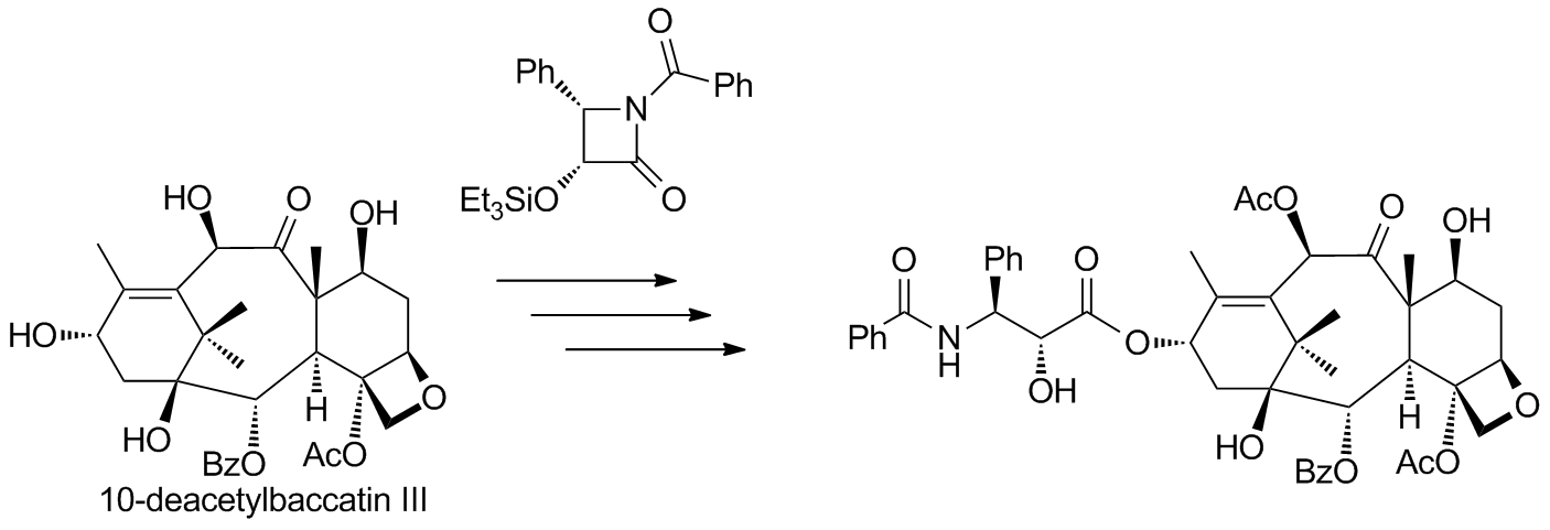 (3R,4S)-3-triethylsilanyloxy-4-phenyl-N-Boc-2-azetidinone's stereochemistry (in the original semi-synthesis) is incorrect.